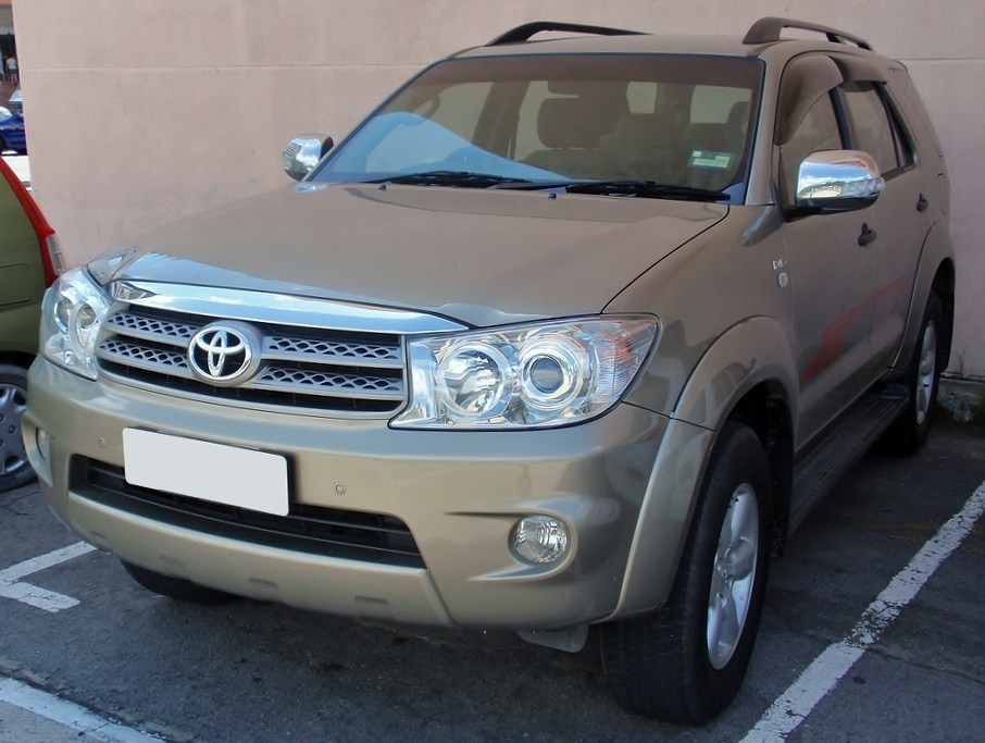 Went to Karamunsing Complex today and spotted a Toyota Fortuner Facelift parked near Pertama Furniture. I really like the design of this facelifted version.